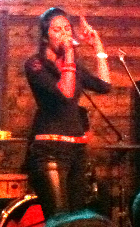 This photo of Maya Jupiter was taken on 24 November 2010 in Downtown Orlando, Orlando, FL, US, using an Apple iPhone 4.